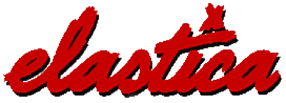 logo of band of brit pop "Elastica"